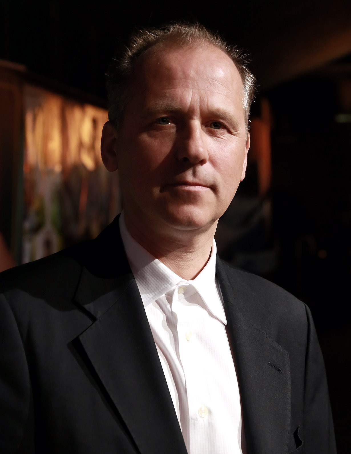 Actor Michael Walde-Berger at the viennese premiere of Shattered Night at the cinema at Gasometer (Vienna, Austria.